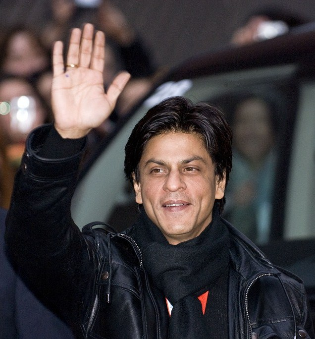 Indian actor Shahrukh Khan, arrival for press conference of "Om Shanti Om" at the Hyatt Hotel, Potsdamer Platz, Berlin